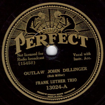 Outlaw John Dillinger by the Frank Luther Trio, Perfect 1934.